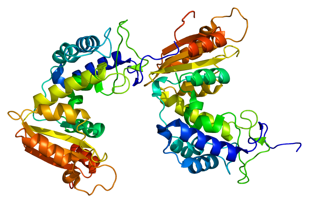 Structure of the CD38 protein. Based on PyMOL rendering of PDB 1yh3.